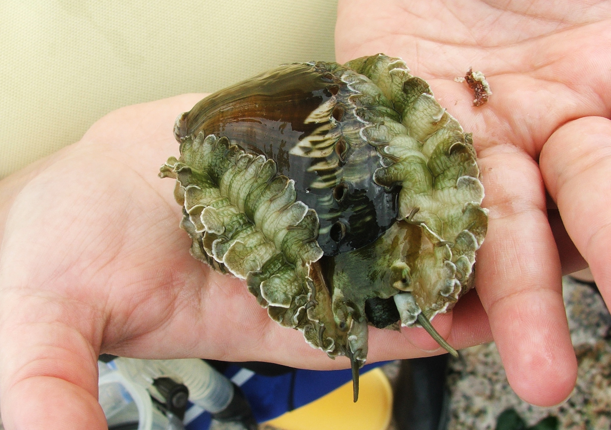 Ass's Ear Abalone being held for better contrast. Mantel is fully out Location: Heron Island